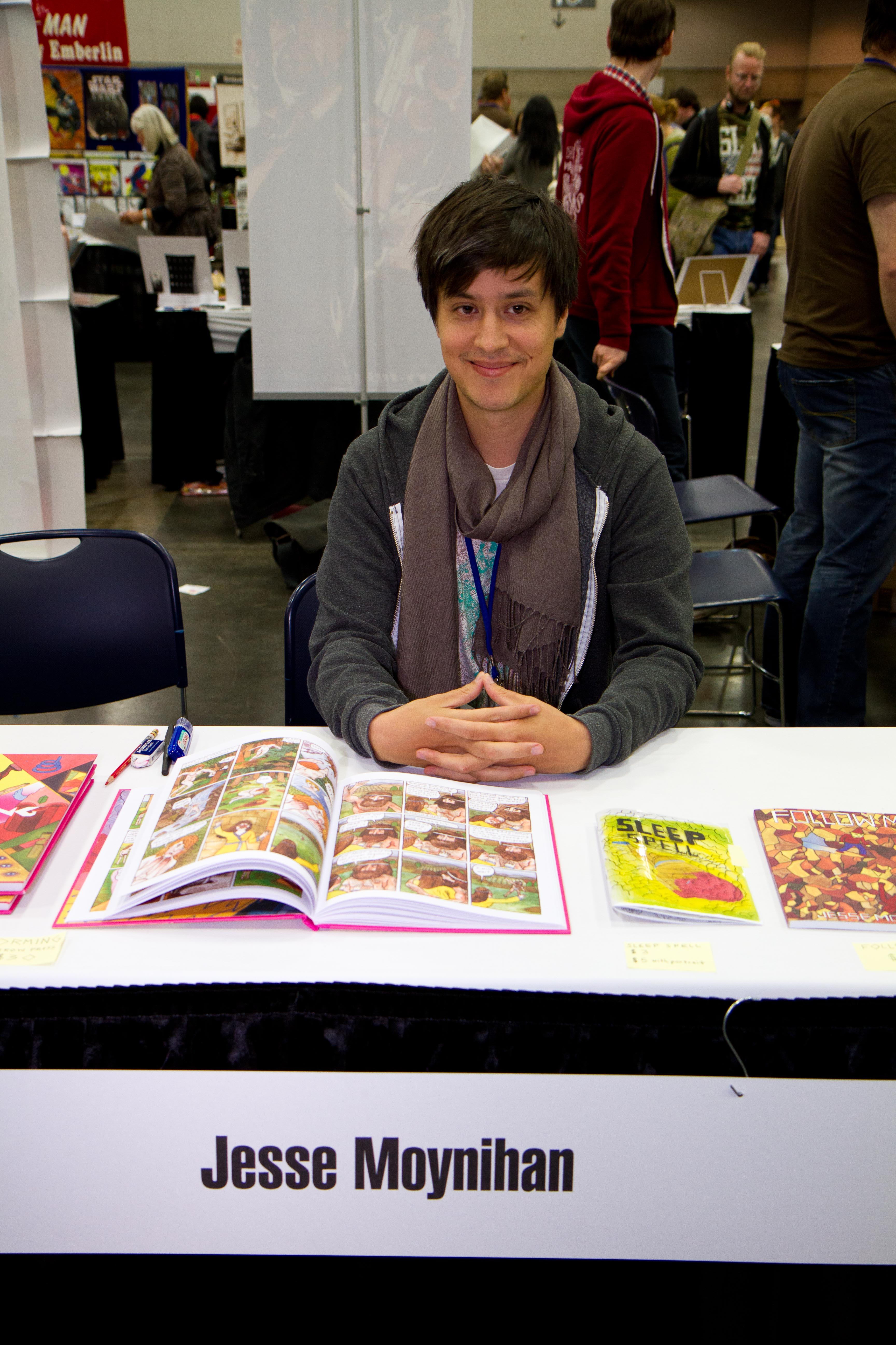 A picture of American storyboard artist Jesse Moynihan, taken at the 2012 Stumptown Comics Fest